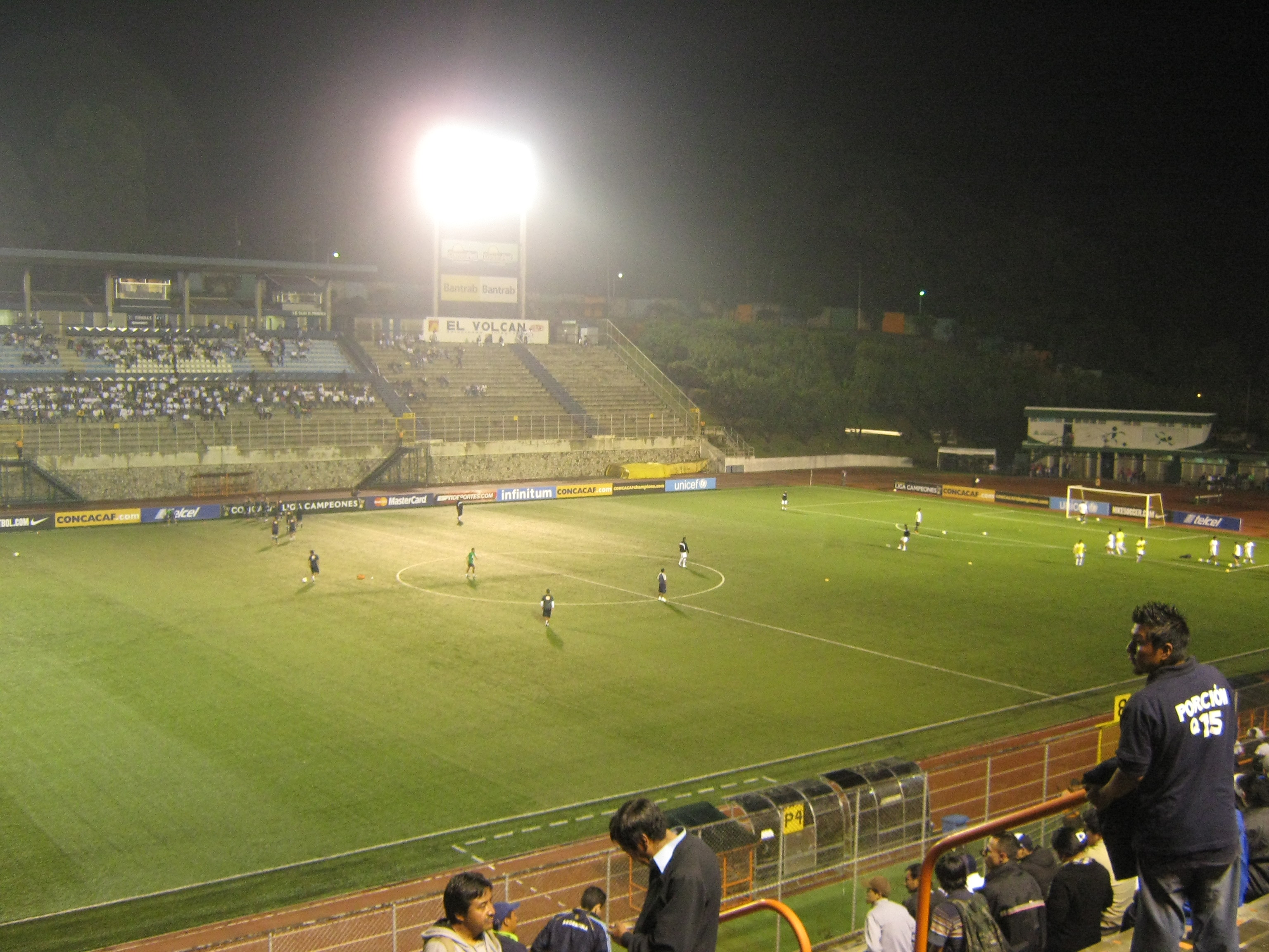 Stadium Cementos Progreso in Guatemala.